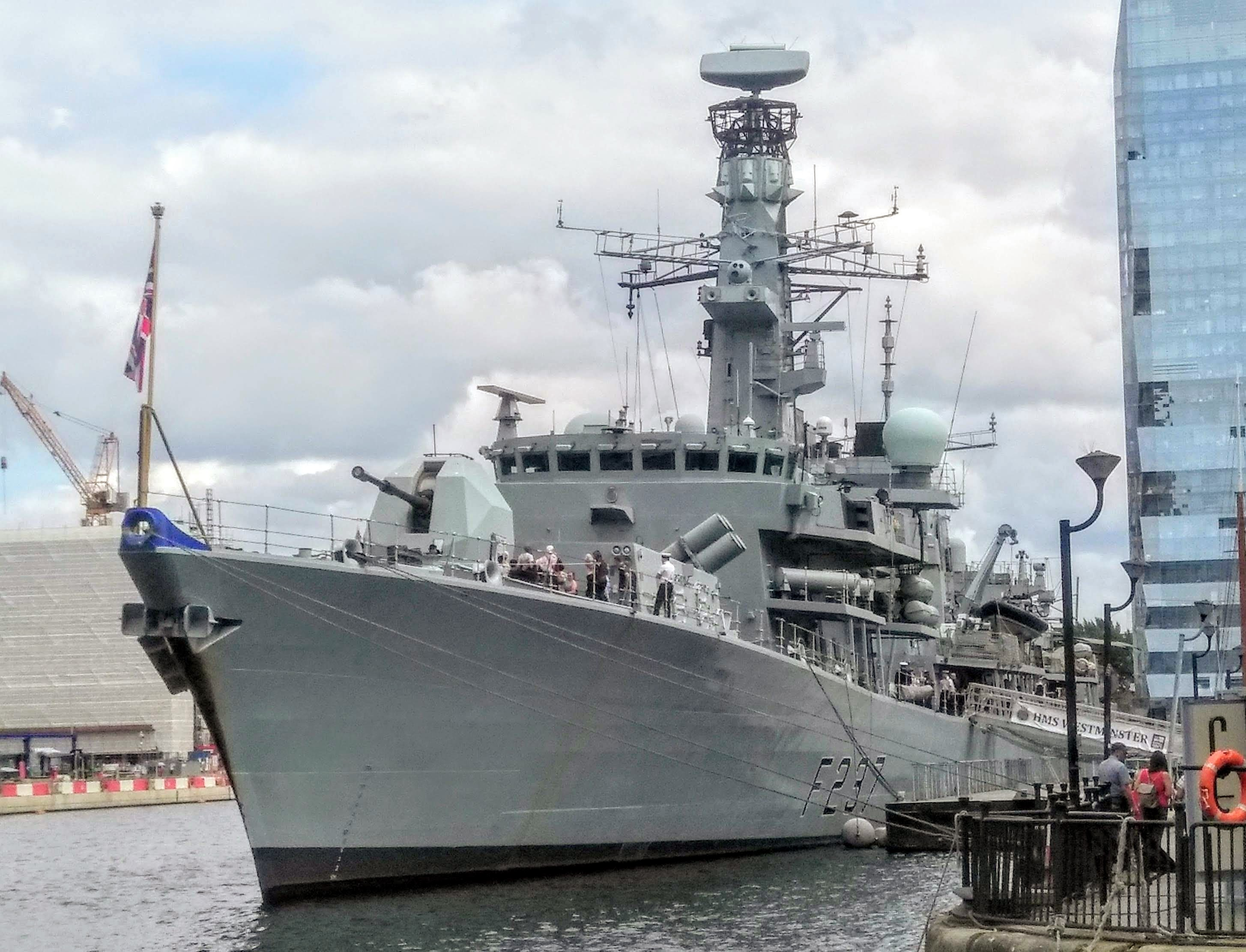 HMS Westminster moored at South Quay during a port visit to London